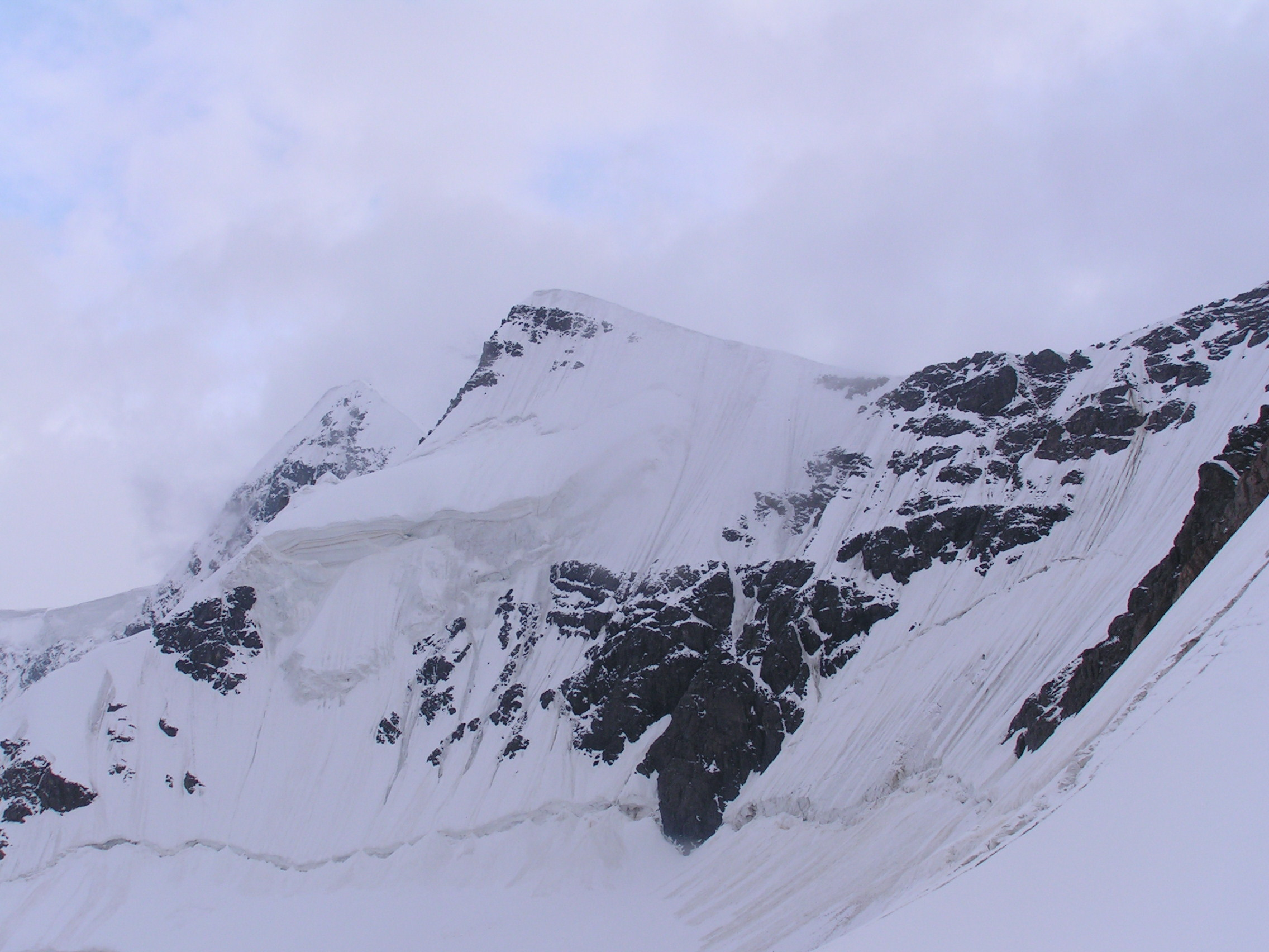 Pik Esenina Mount